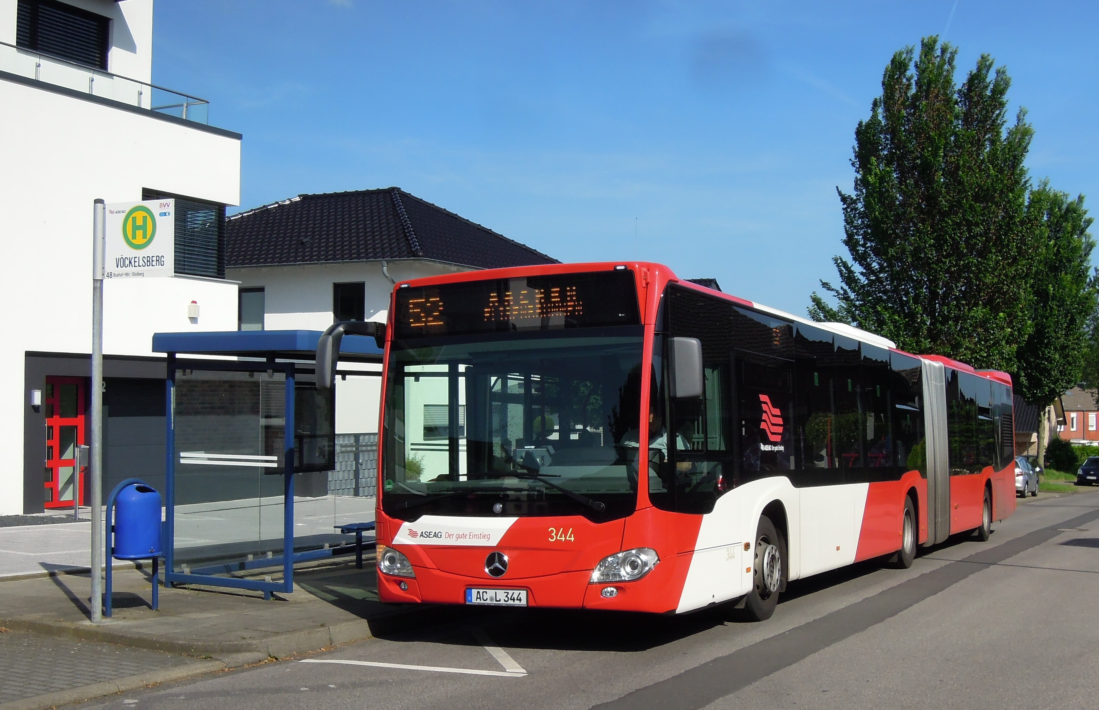 Mercedes-Benz Citaro G of Aseag at Vöckelsberg bus stop.